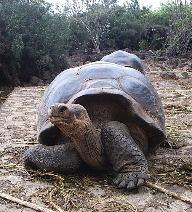 The long-lived Galápagos tortoise